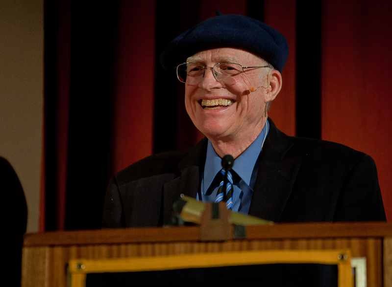 Walter Alvarez, professor of geology in the Earth and Planetary science department, presents "Earth History in the Broadest Possible Context." Alvarez recounts revolutions in geology, his work in Egypt, Libya and Tunisia as well as his interests in the Sahara, the Nile and the Mediterranean. Alvarez also tells the tale of the Berkeley Theory, in which dinosaurs were killed by an asteroid impact, developed in collaboration with his father, Nobel Prize winning physicist Luis Alvarez. Alvarez also unveils ChronoZoom, a new tool for the emerging field of "Big History" that makes browsing the past at all scales comprehensible like never before.